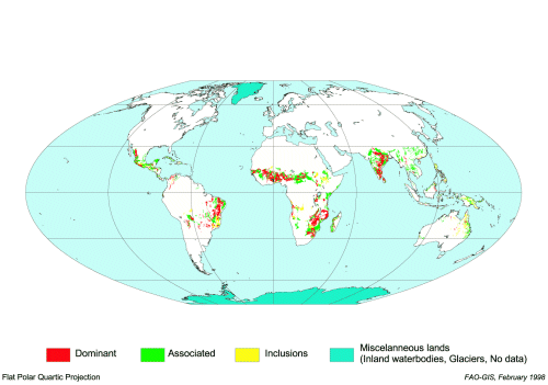 distribution of Lixisols